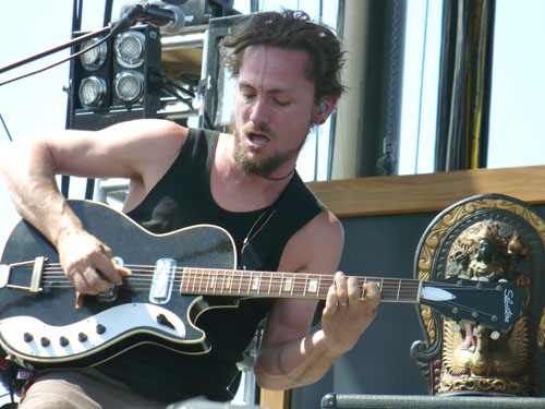 John Butler Trio - Live in Concert 2009 (photo by Scott Dudelson) Harmony/Silvertone H49 Stratotone Jupiter